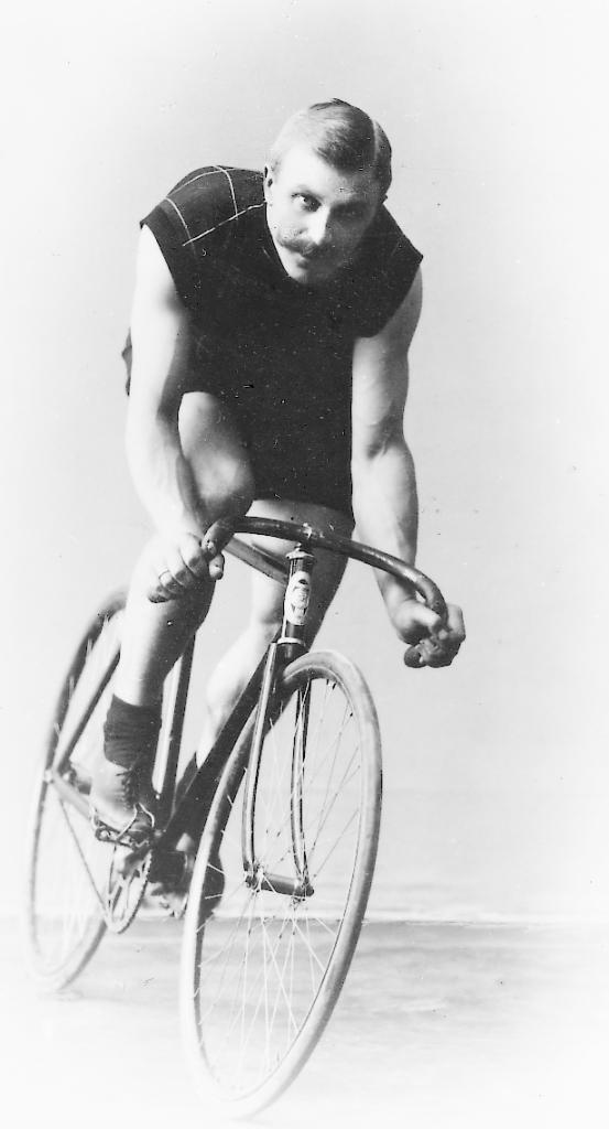 Danish six'fold sprint champion Thorvald Ellegaard